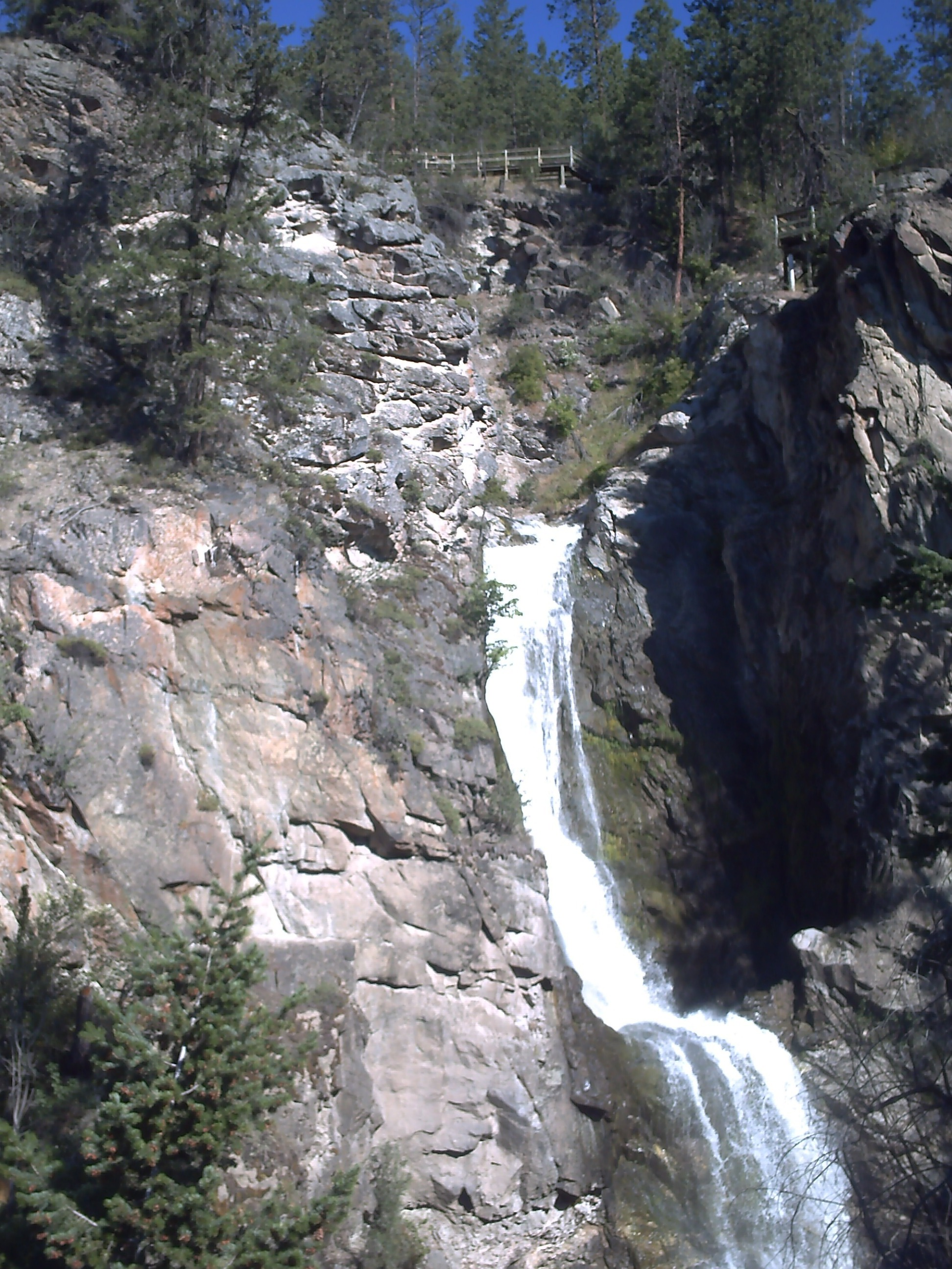 Fintry Falls, as seen from a hike in Fintry Provincial Park.